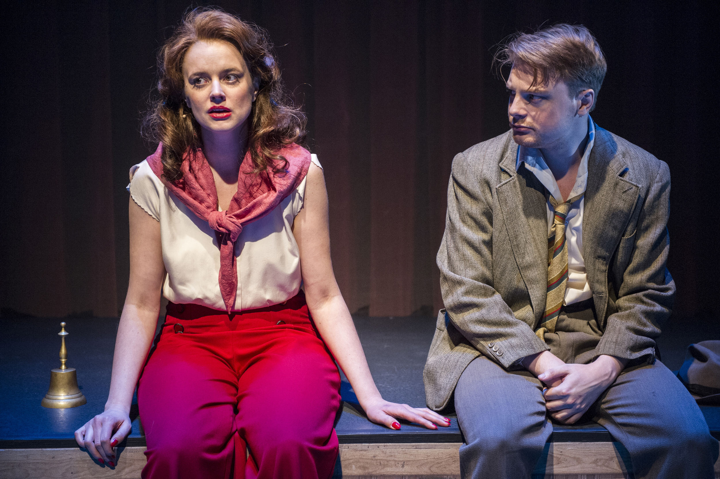 From the 2014 stage version at Det Norske Teatret of Alf Prøysen's musical Trost i taklampa. Charlotte Frogner in the main role as Gunvor. Eivin Nilsen Salthe as Arne Barnehjemmet